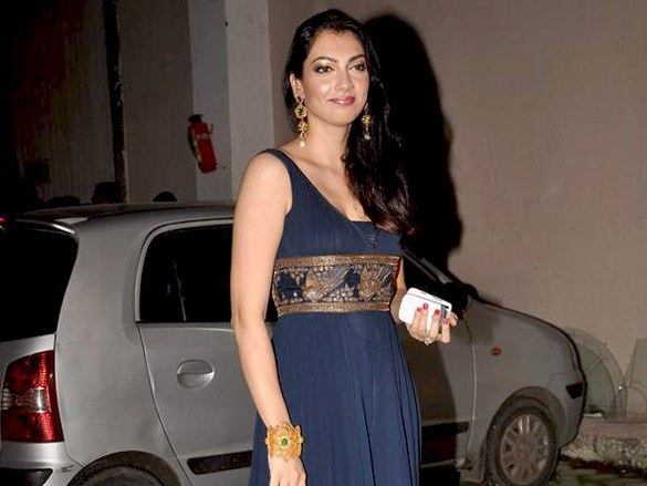 Yukta Mookhey at Telly Chakkar's Talent Awards